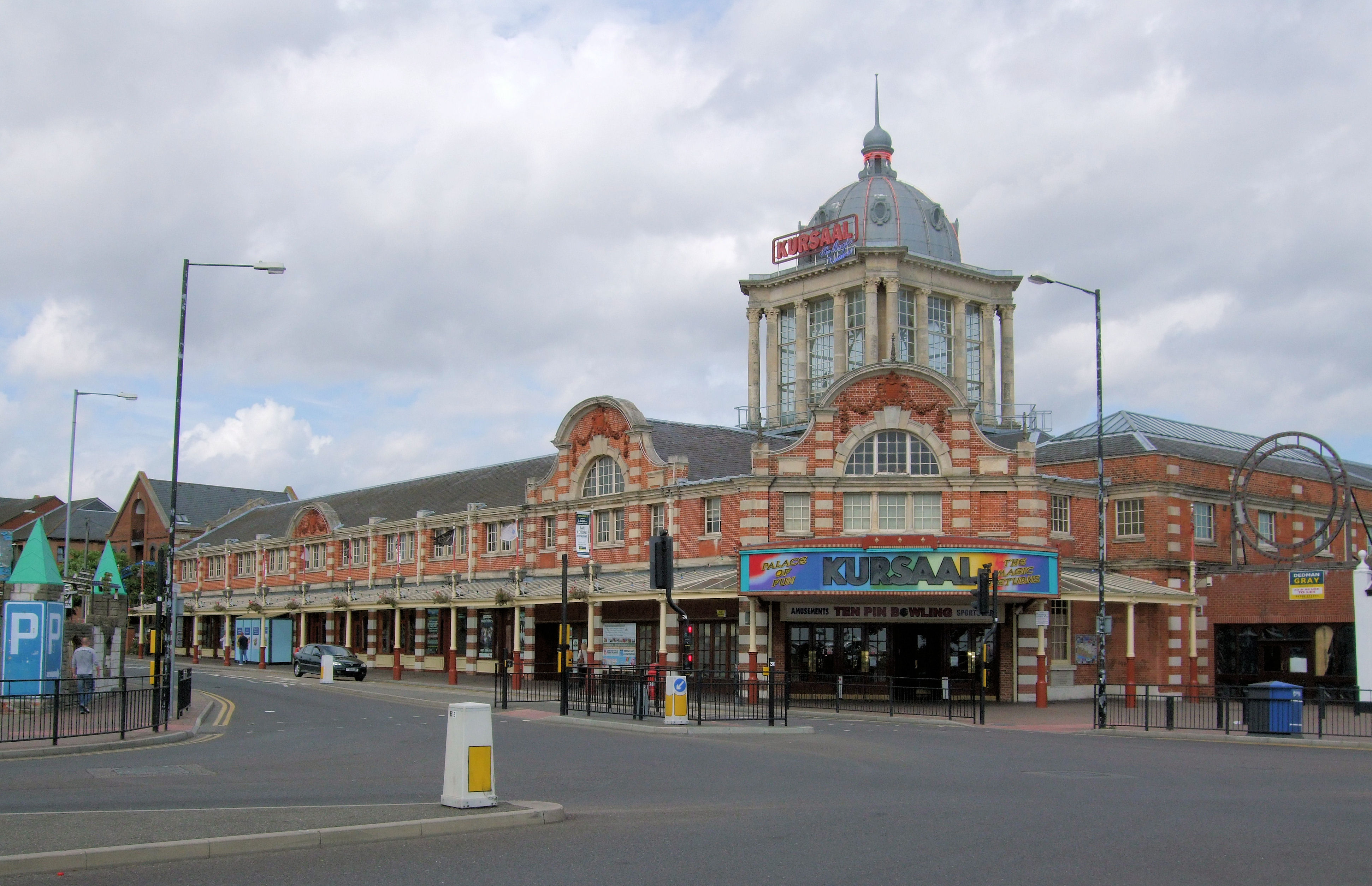 The Kursaal was the world's first ever theme park, pre-dating Coney Island in America. Designed by the architect Campbell Sherrin, also responsible for amongst other things, the Brompton Oratory, the Kursaal building and its Dome were at the cutting edge of architectural design. It now hosts Southend's 20-lane ten-pin bowling alley (formerly on the pier until 1995's fire).